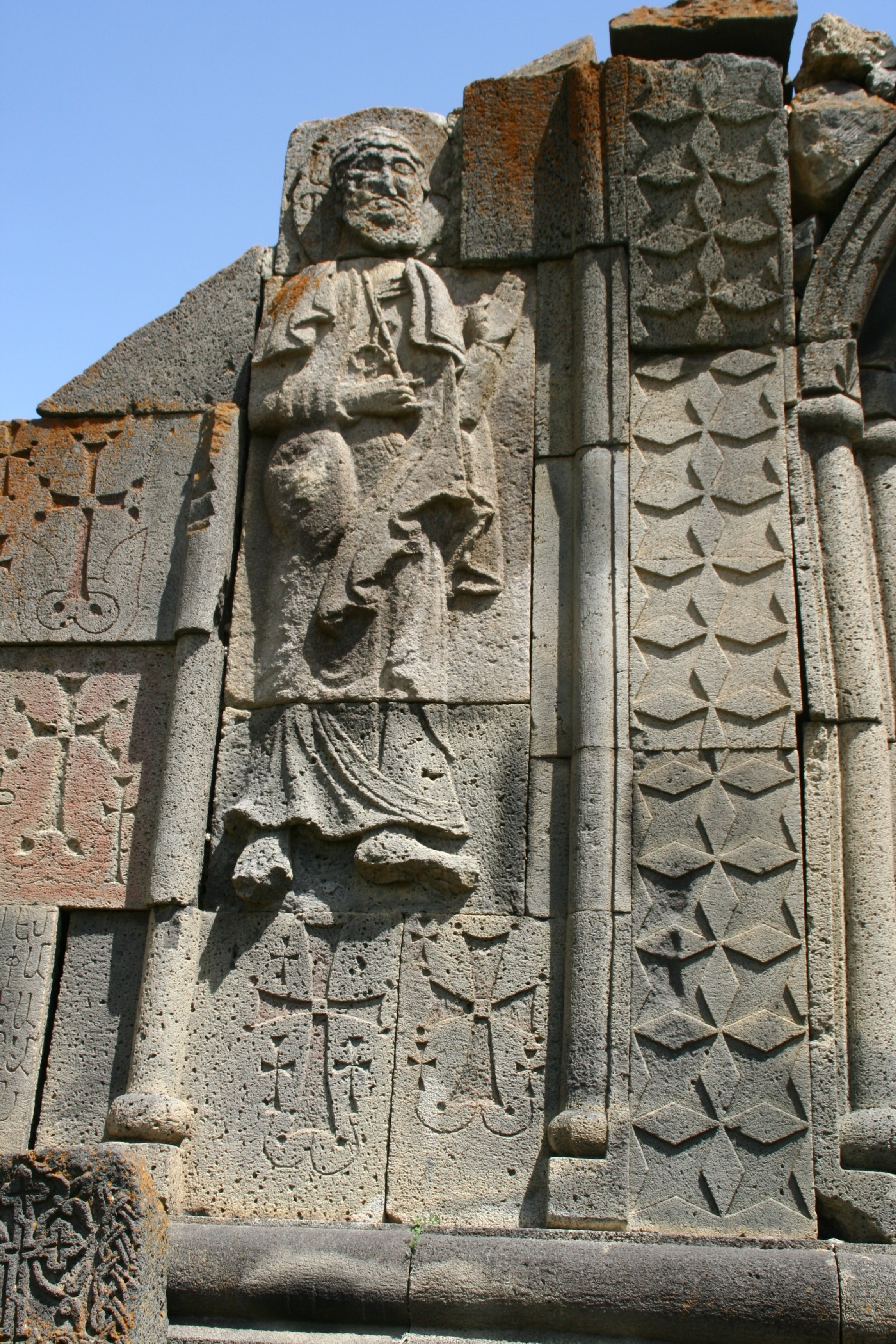 վանական համալիր Աղջոց ս. Ստեփանոս 99.1/1.1